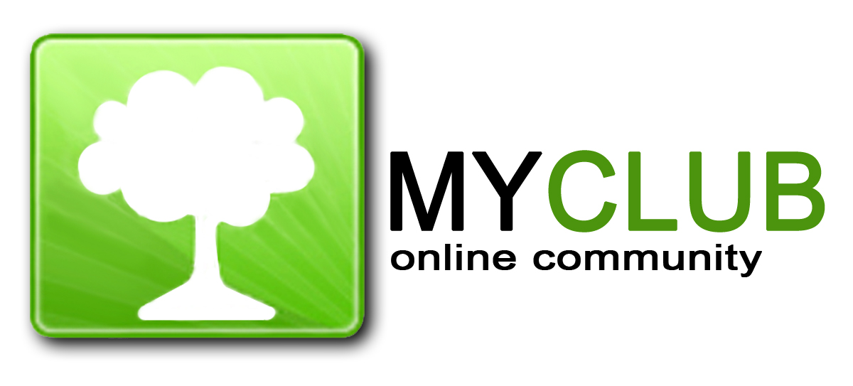 Minii Club's official logo